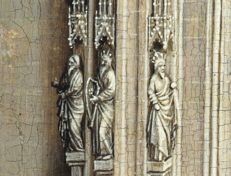 Detail of Virgin and Child Enthroned.